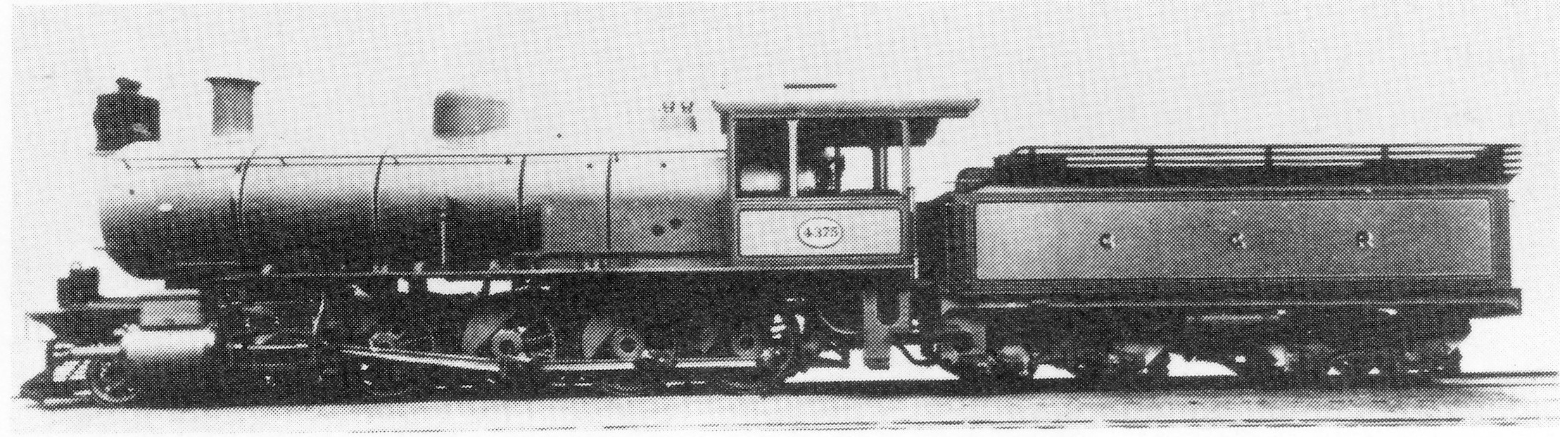 SAR Class Exp 6 1244 (4-8-0), ex CGR Class 10 880, Kitson Works no 4375